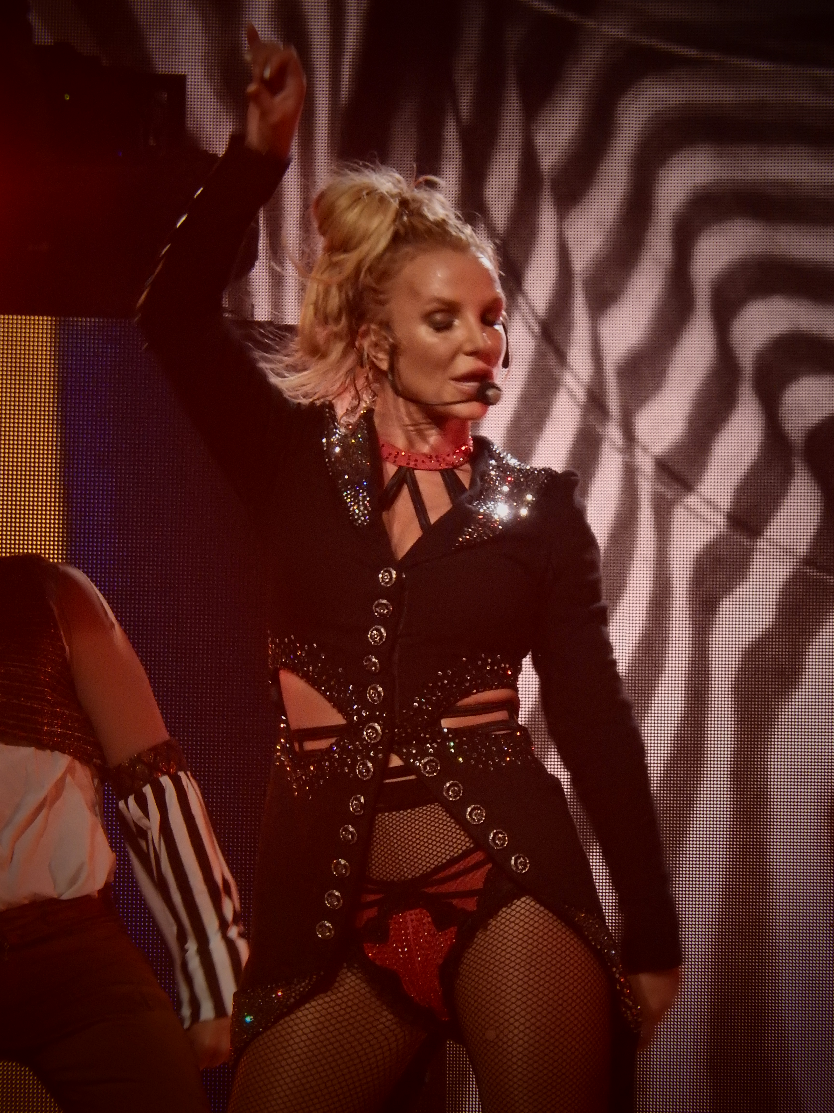 Britney Spears, Roundhouse, London (Apple Music Festival 2016)